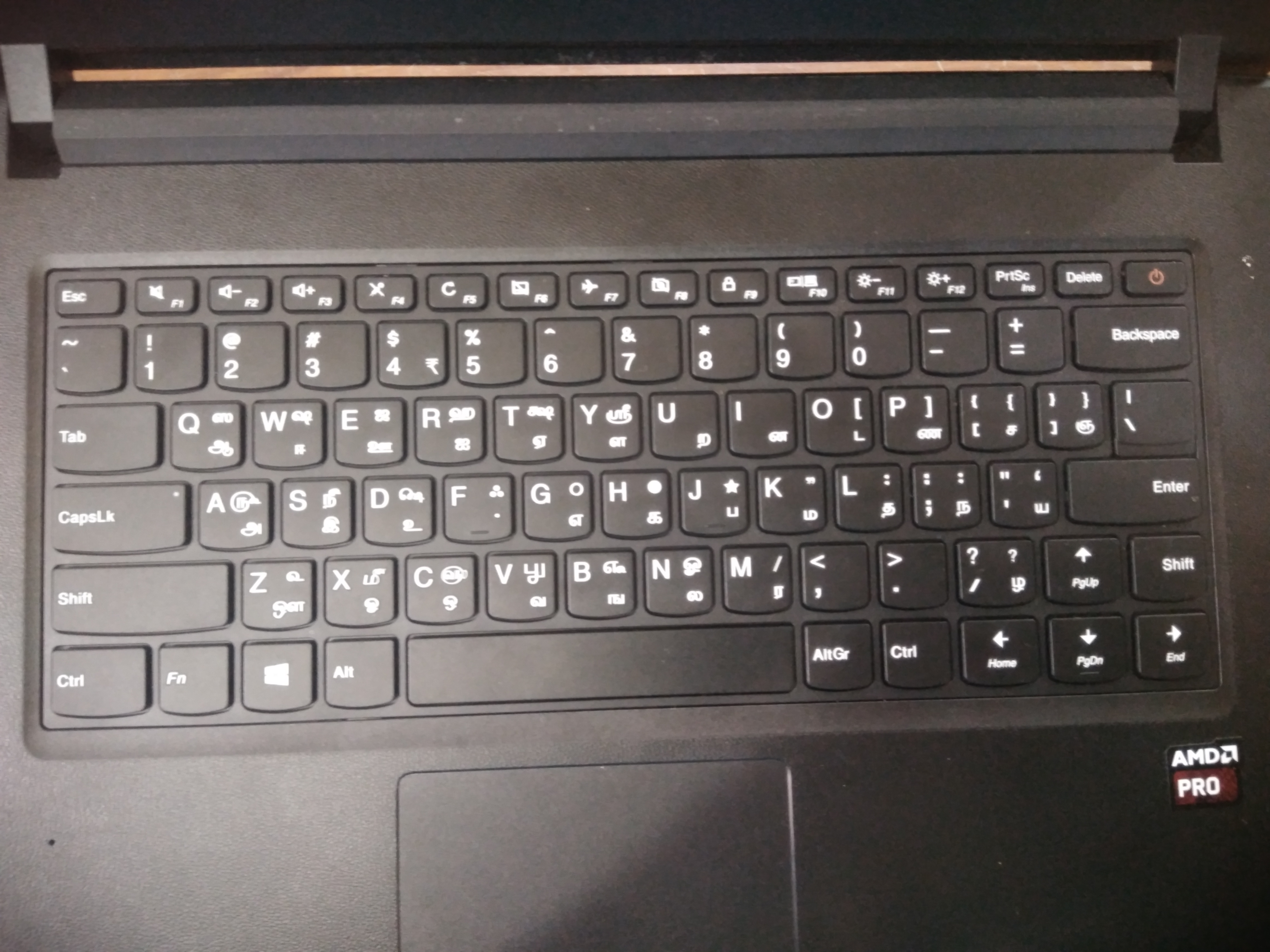 Tamil 99 key board in laptops